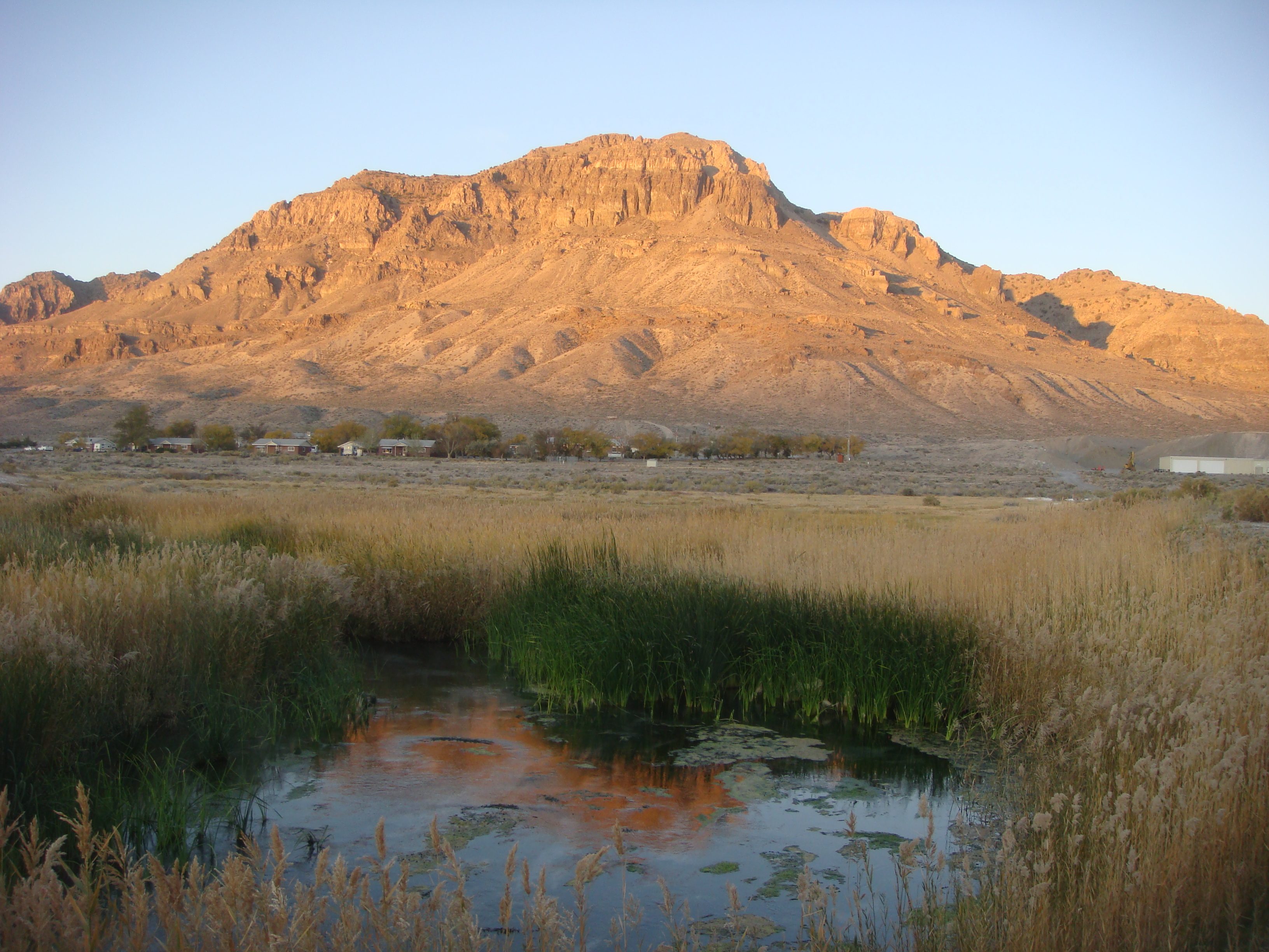 Sunrise at Middle Spring, Fish Spring National Wildlife Refuge, Utah. headquarters shown at base of mountain.